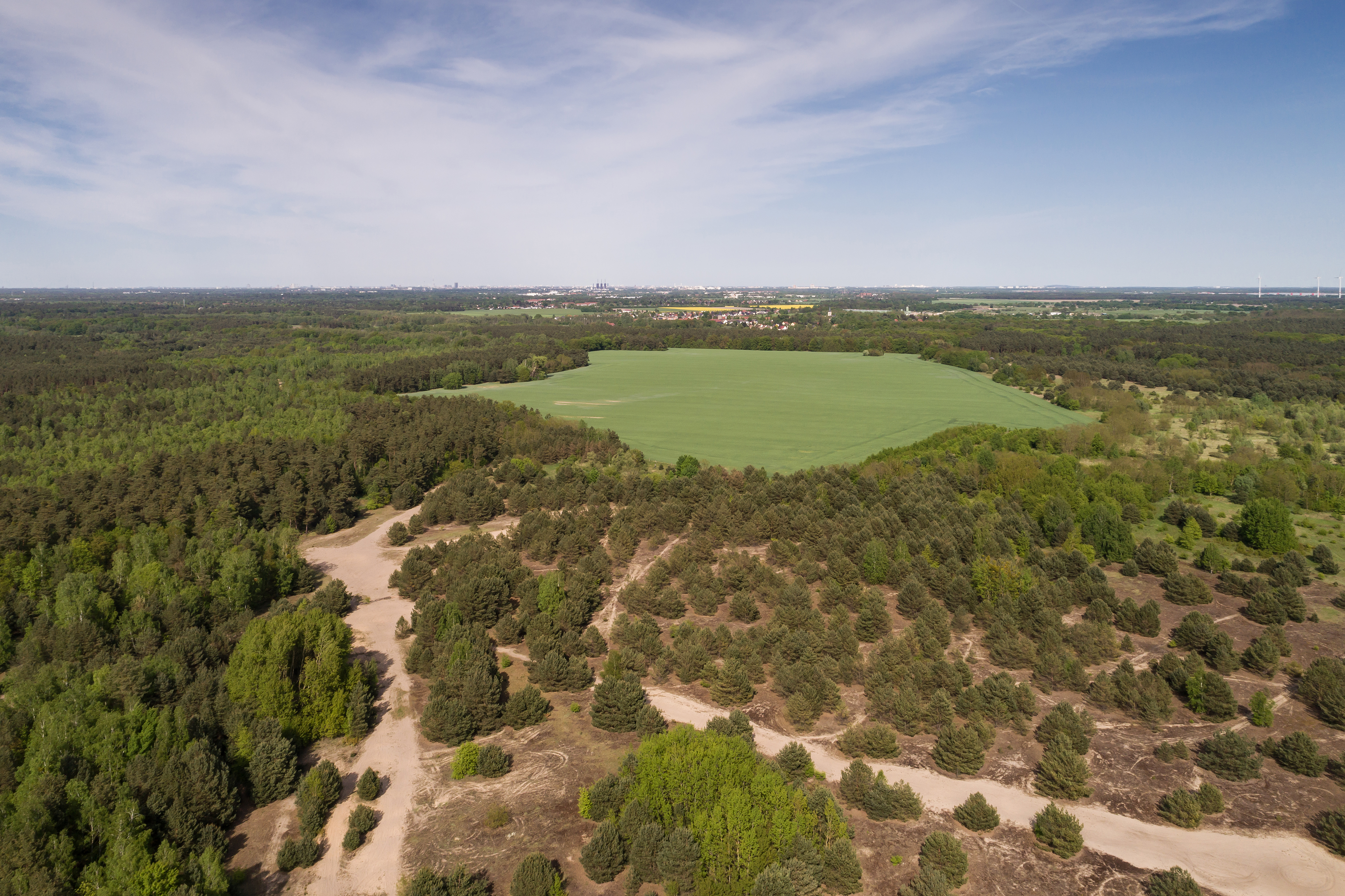 Aerial photo of Stahnsdorf forest near Berlin